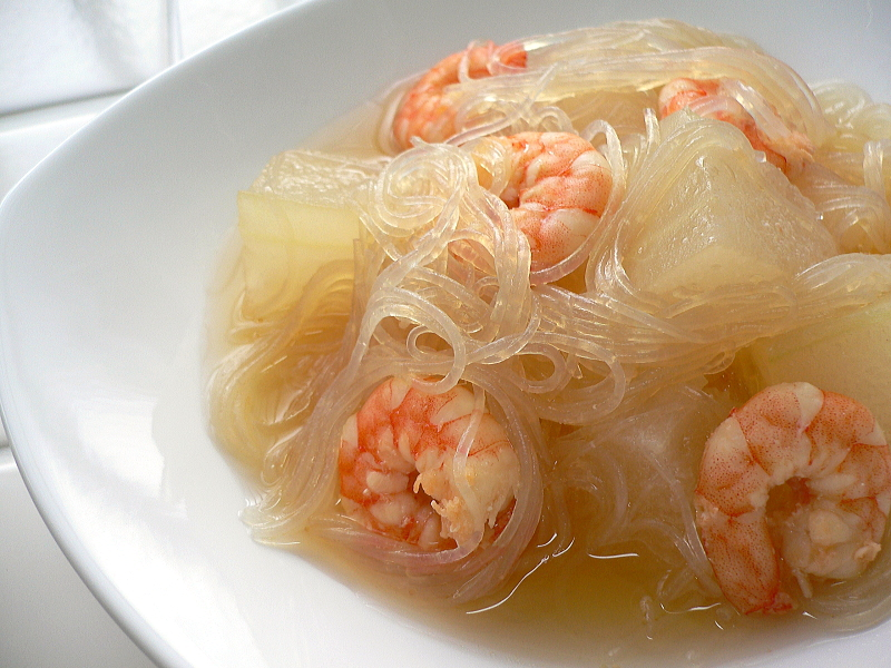 tougan(wax gourd), shrimp, harusame(vermicelli), sake, chinese soup, soy sauce, salt.